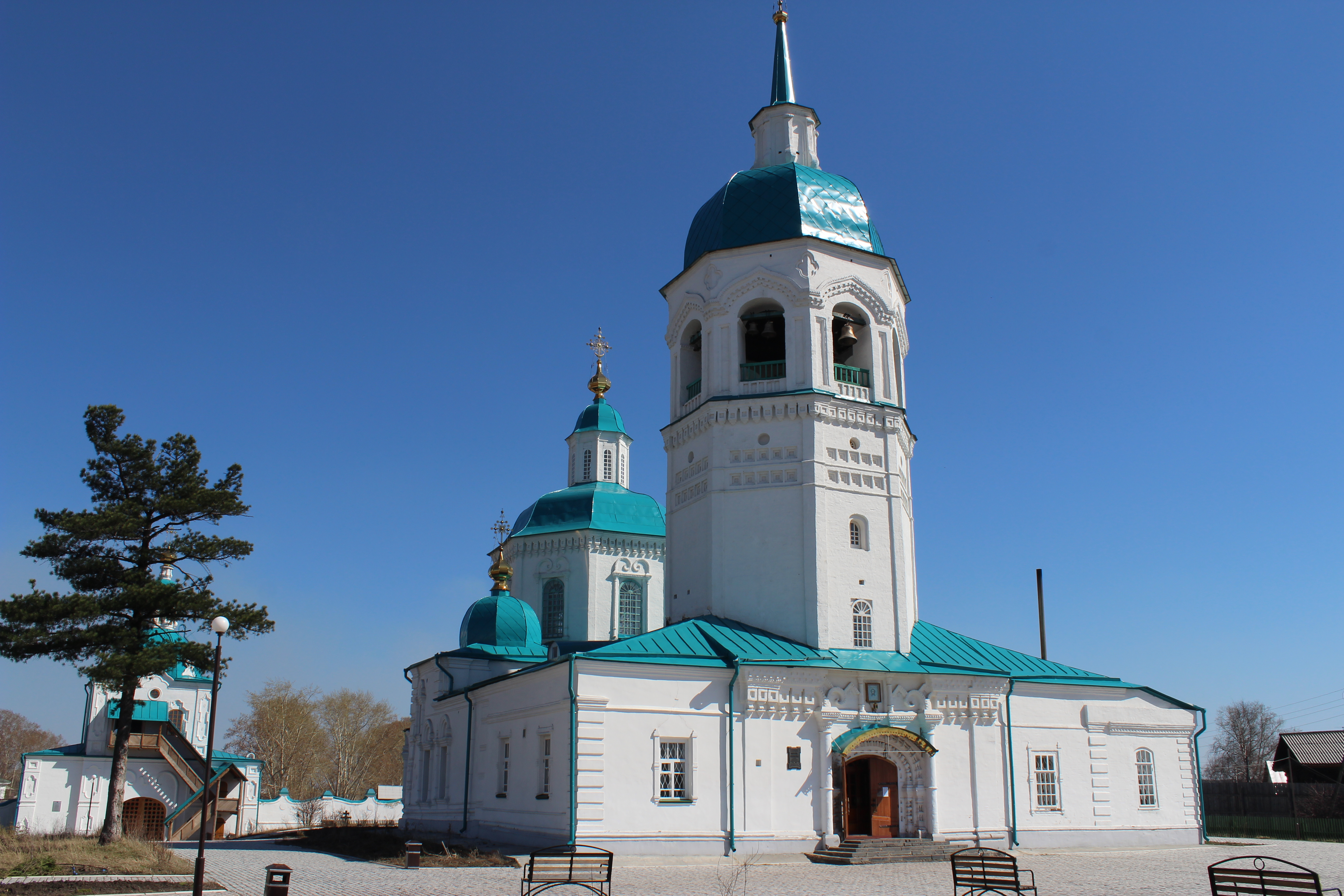 The main building of the Holly Transfiguration Monastery in Enisejsk. Architectural monument. The main building was built 1731-1756 years.